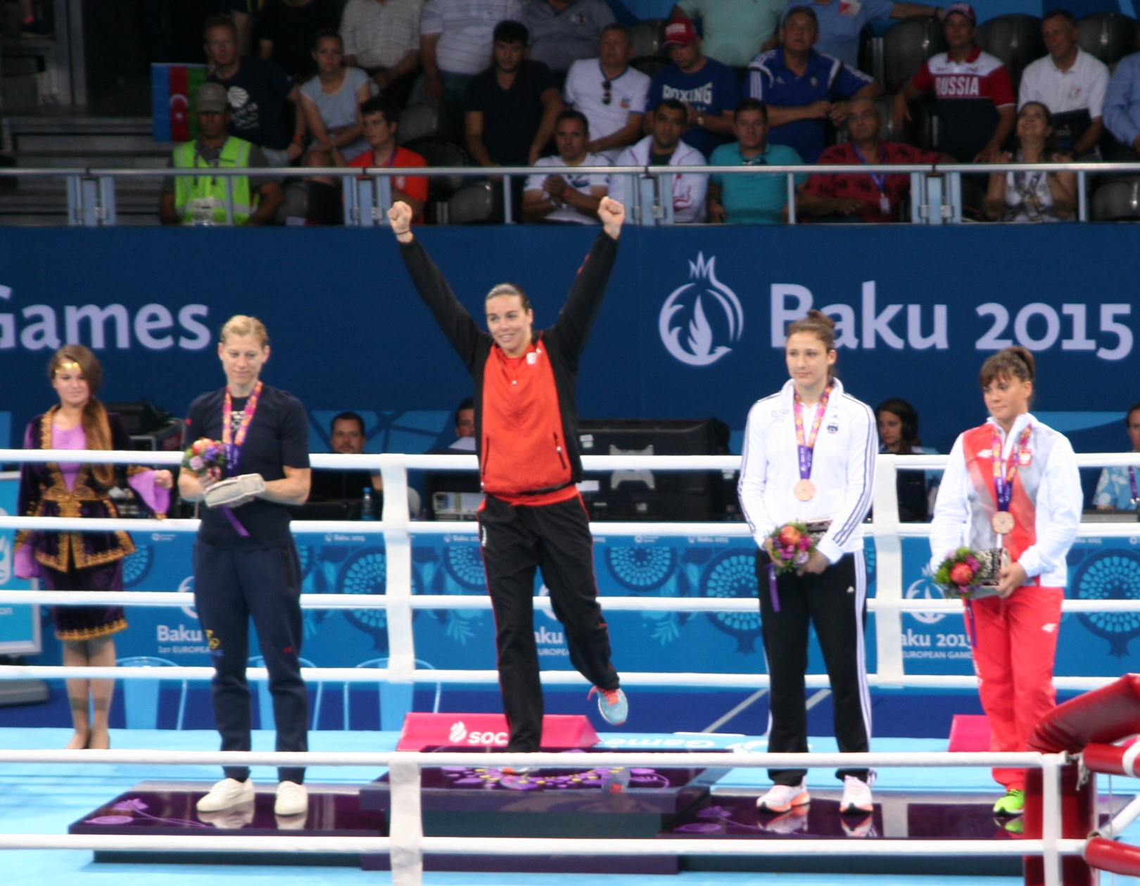 Nouchka Fontijn at the awarding ceremony of the 2015 European Games